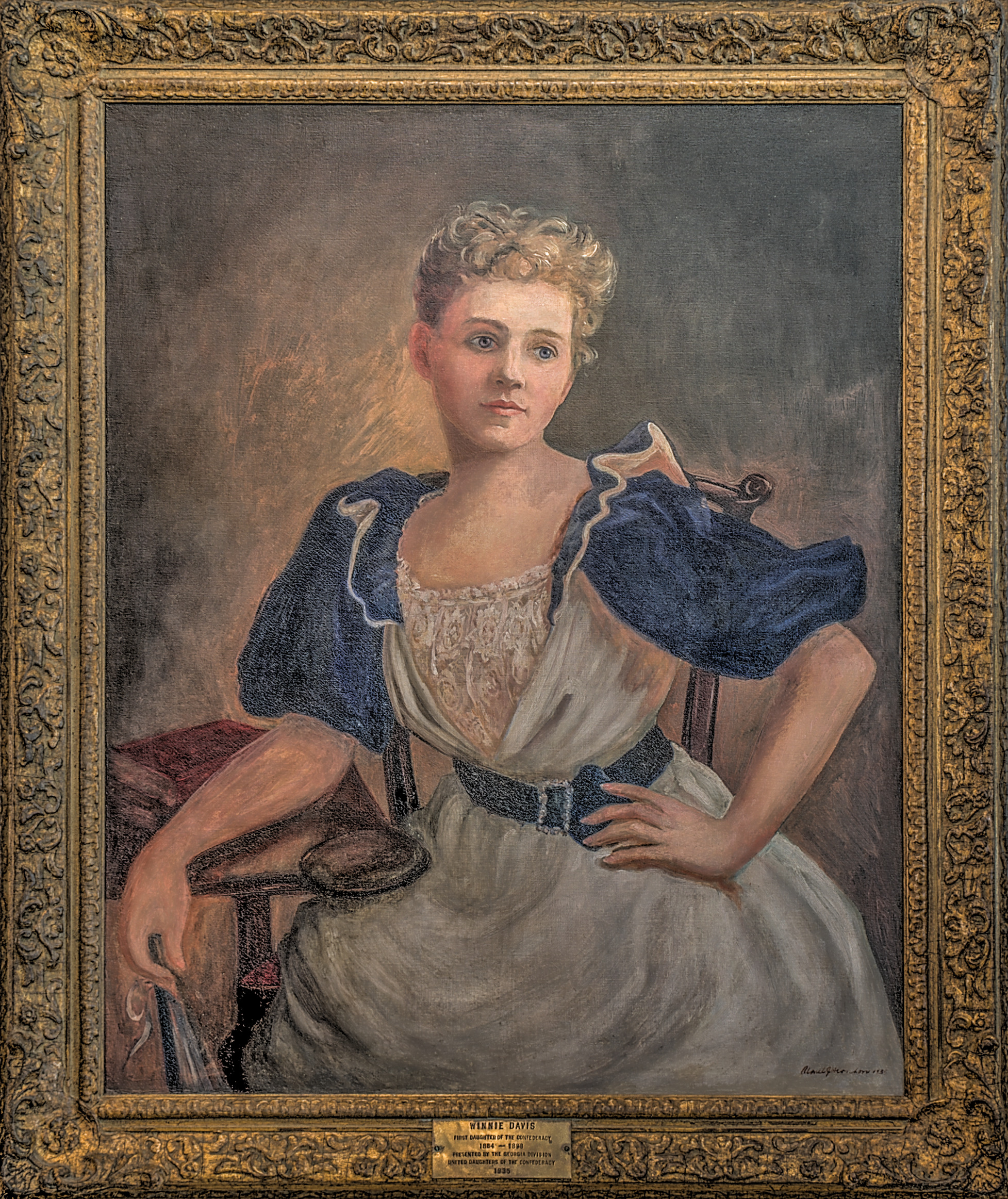 Painting of Varina Anne "Winnie" Davis, First Daughter of the Confederacy. Presented by Georgia Division by the United Daughters of the Confederacy in 1935.